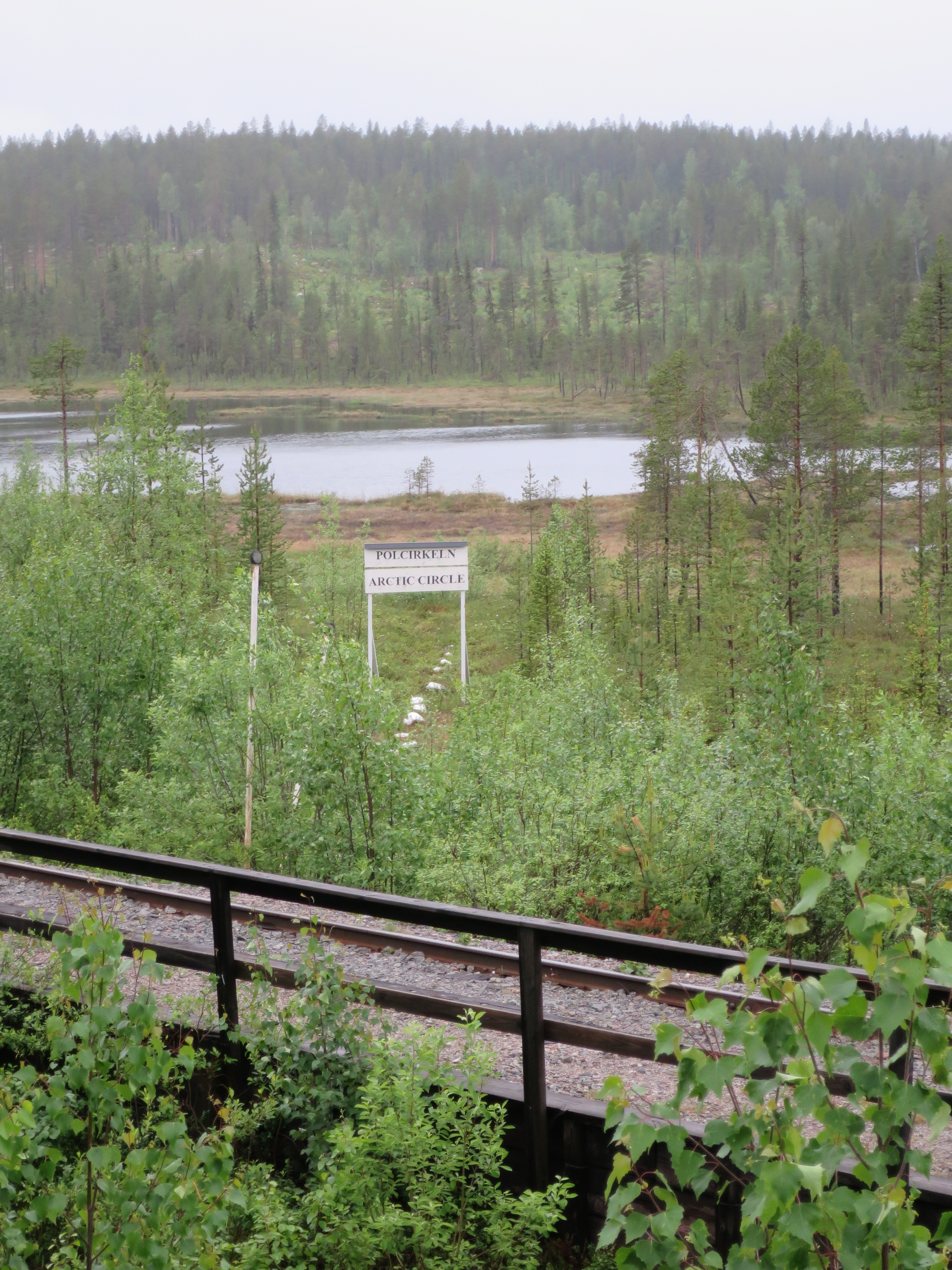 Inlandsbanan crossing Polar Circle